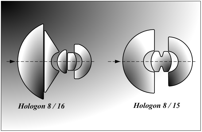 Hologon lens.